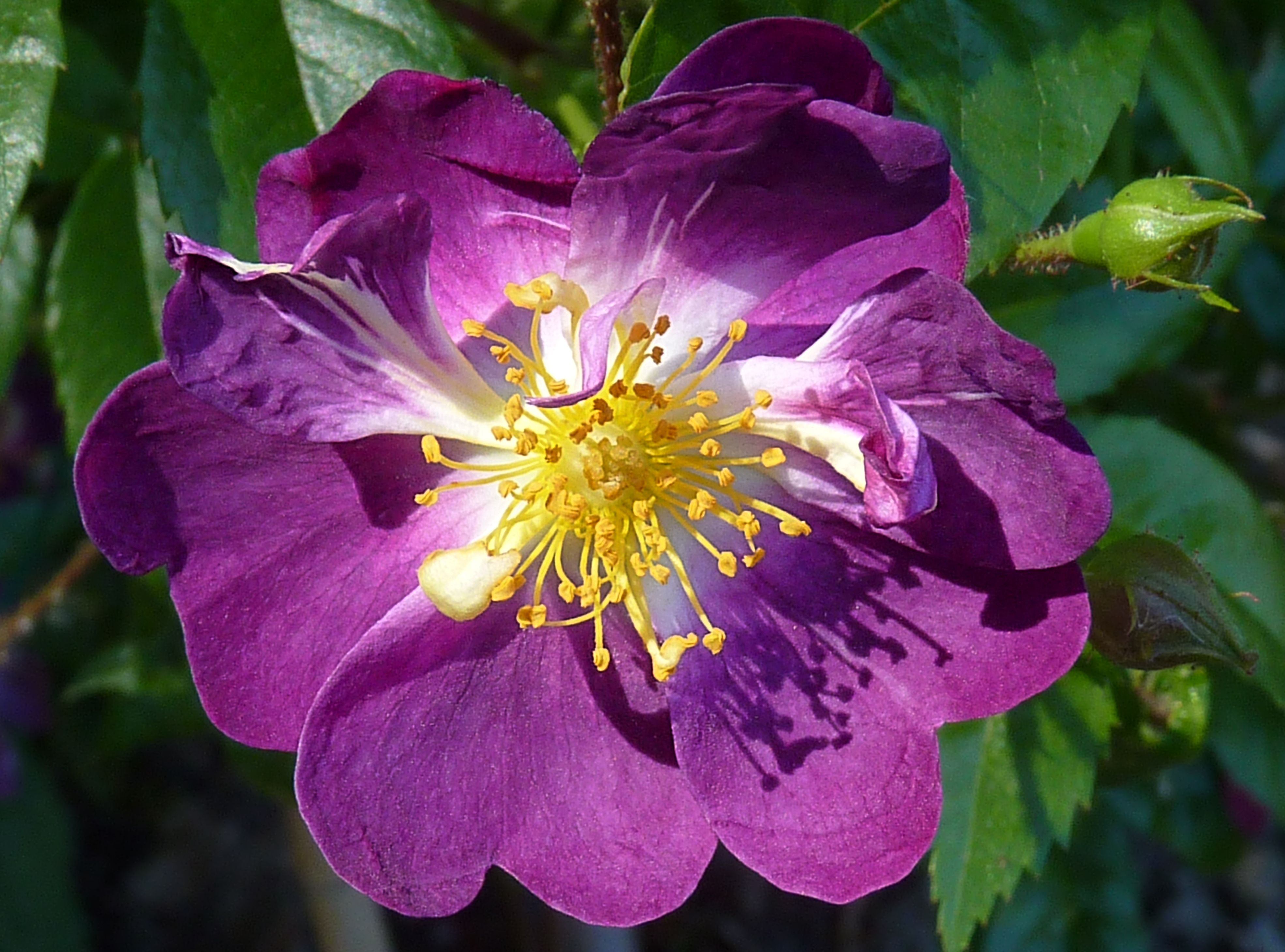 Rosa 'Veilchenblau' (Schmidt, 1909), in a garden in Belgium.